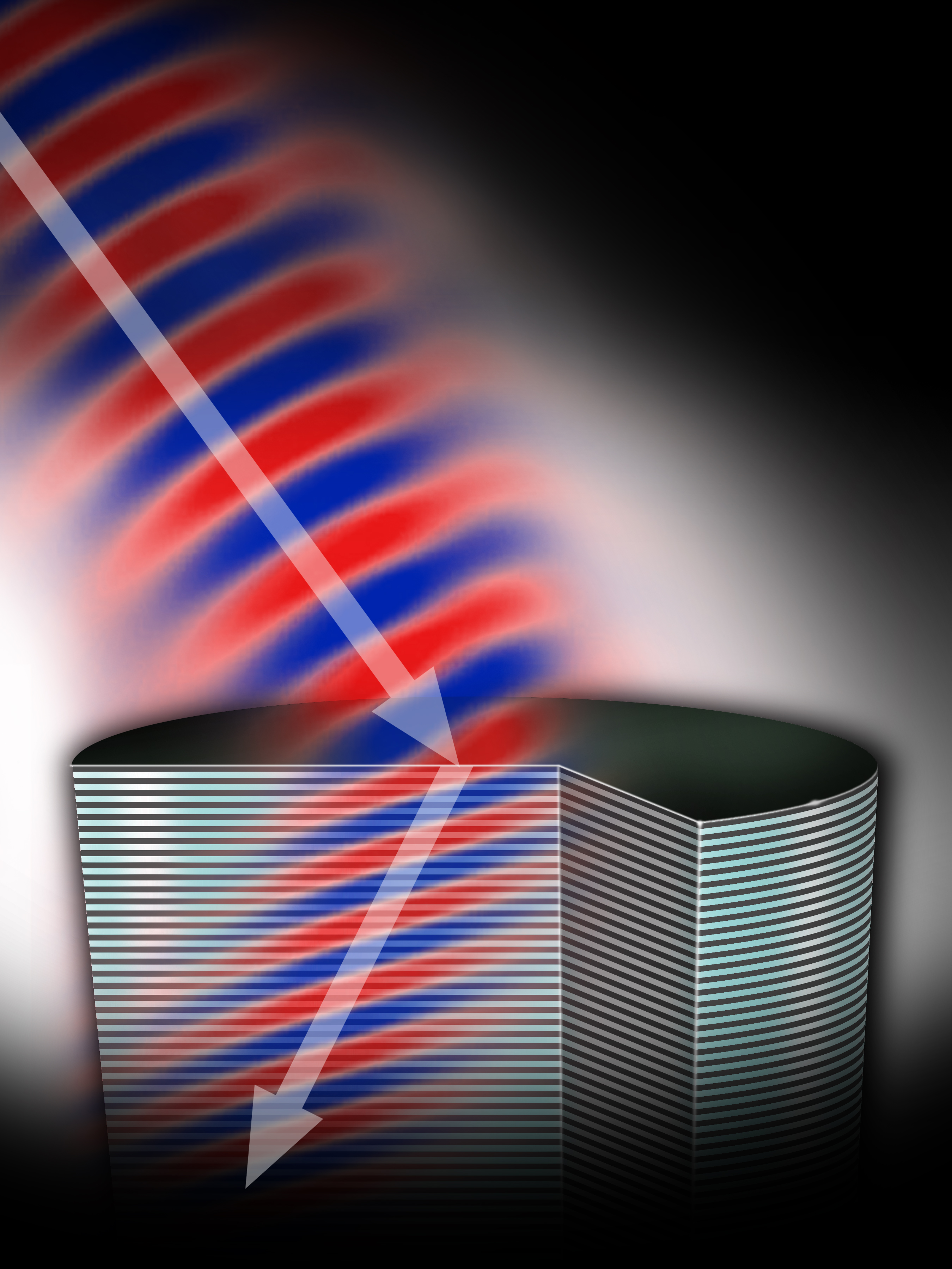 An artist's rendition of the new light-bending metamaterial. While developing new lenses for next-generation sensors, researchers have crafted a layered material that causes light to refract, or bend, in a manner not found in nature. developed by researchers at NSF's Mid-Infrared Technologies for Health and the Environment Engineering Research Center and NSF's Princeton Center for Complex Materials Research Science and Engineering Center. Negative refraction. New metamaterial is used for construction. Photo Credit: Keith Drake